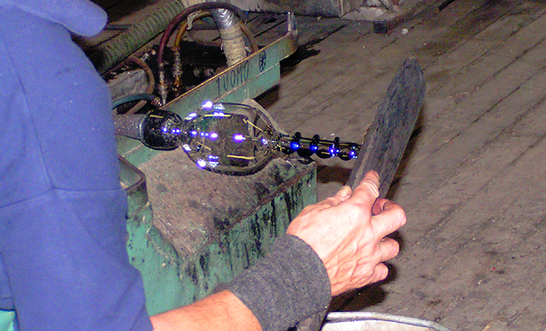 Glassblower working in Bergdala glasbruk in The Kingdom of Crystal, Småland, Sweden